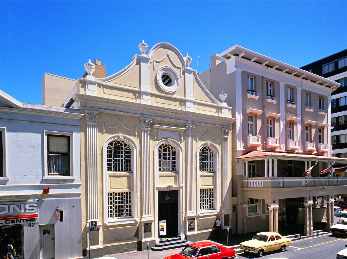 This media shows a South African Protected Site with SAHRA file reference 9/2/018/0194.